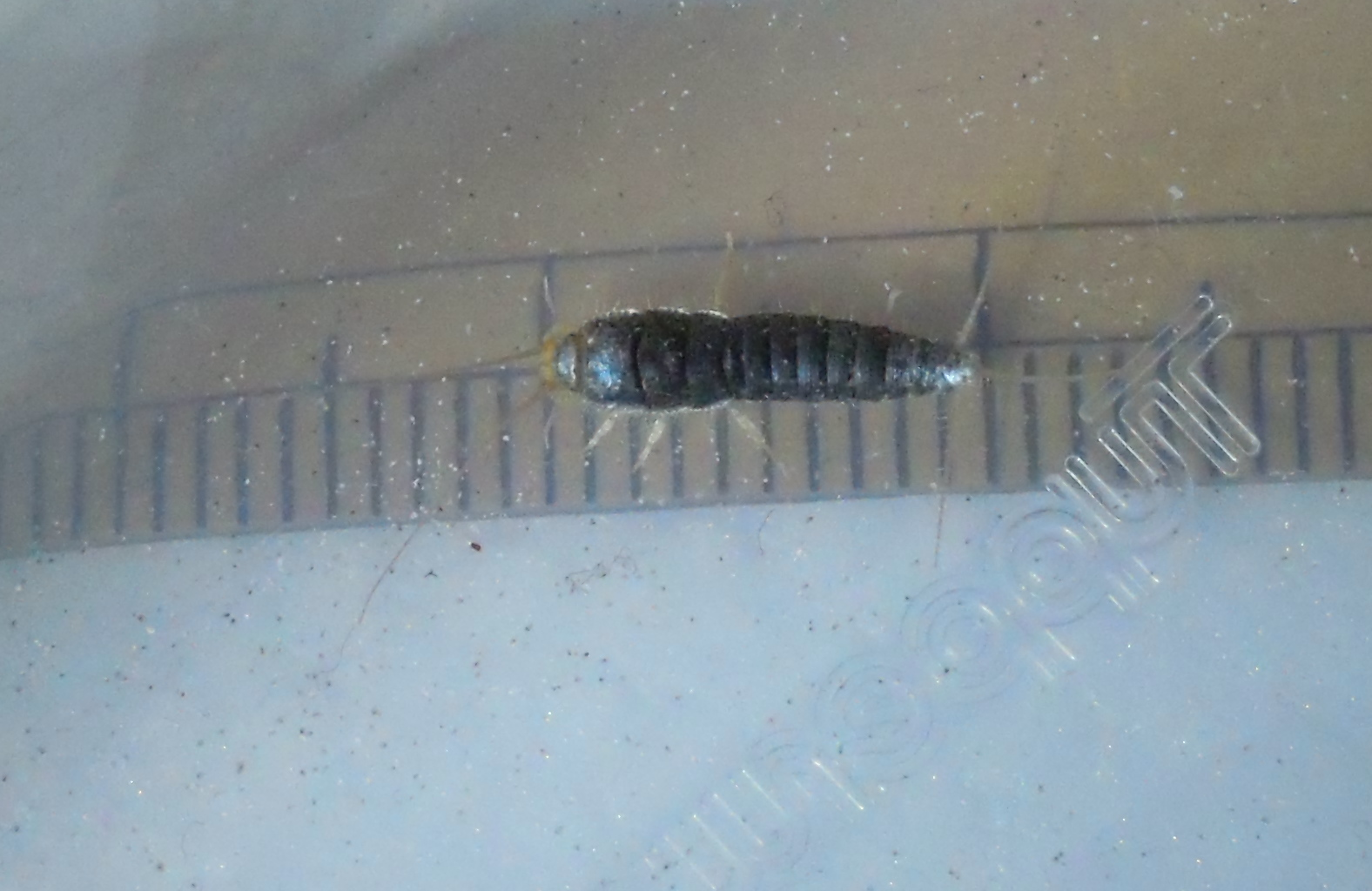 Ctenoleposma villosa (Male), Scale:1mm